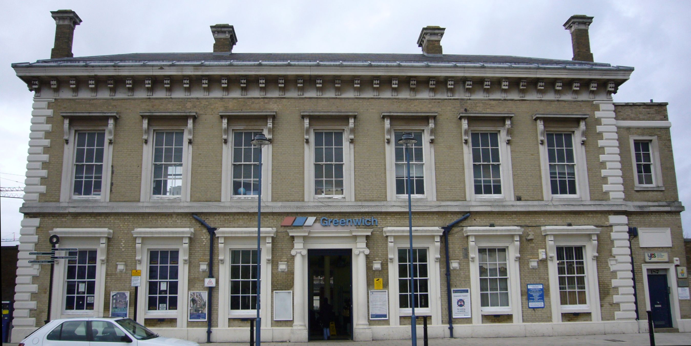 The exterior of Greenwich railway station (and DLR), South East London